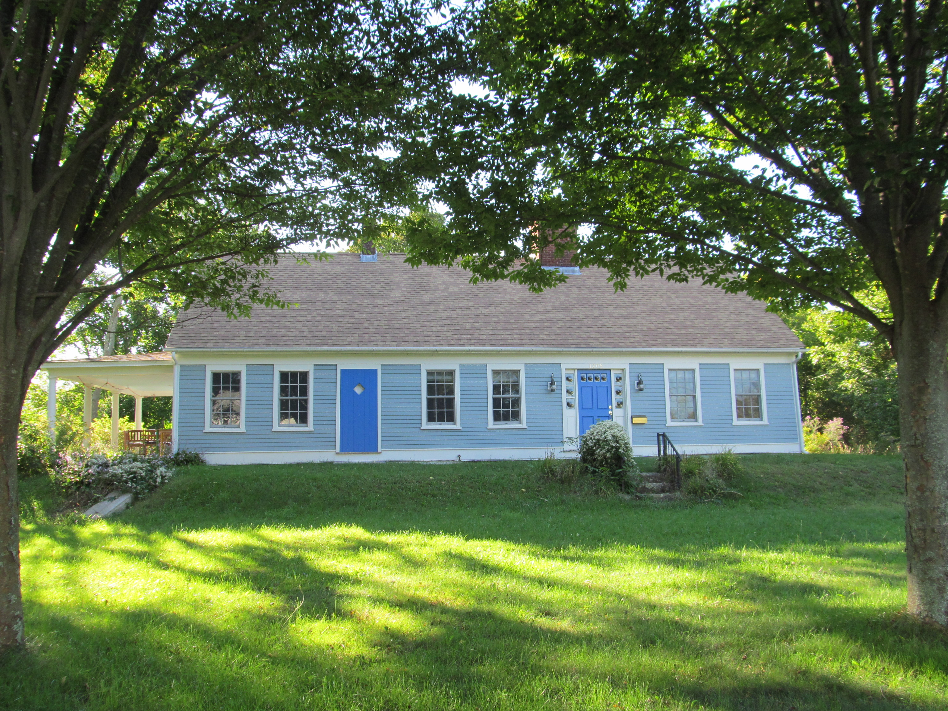 Joseph Gardner House, South Swansea Massachusetts